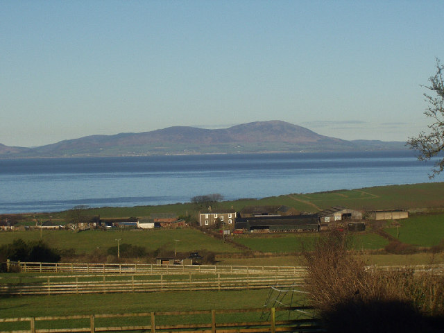 Criffel, Kirkcudbrightshire, from Crosby, Cumbria